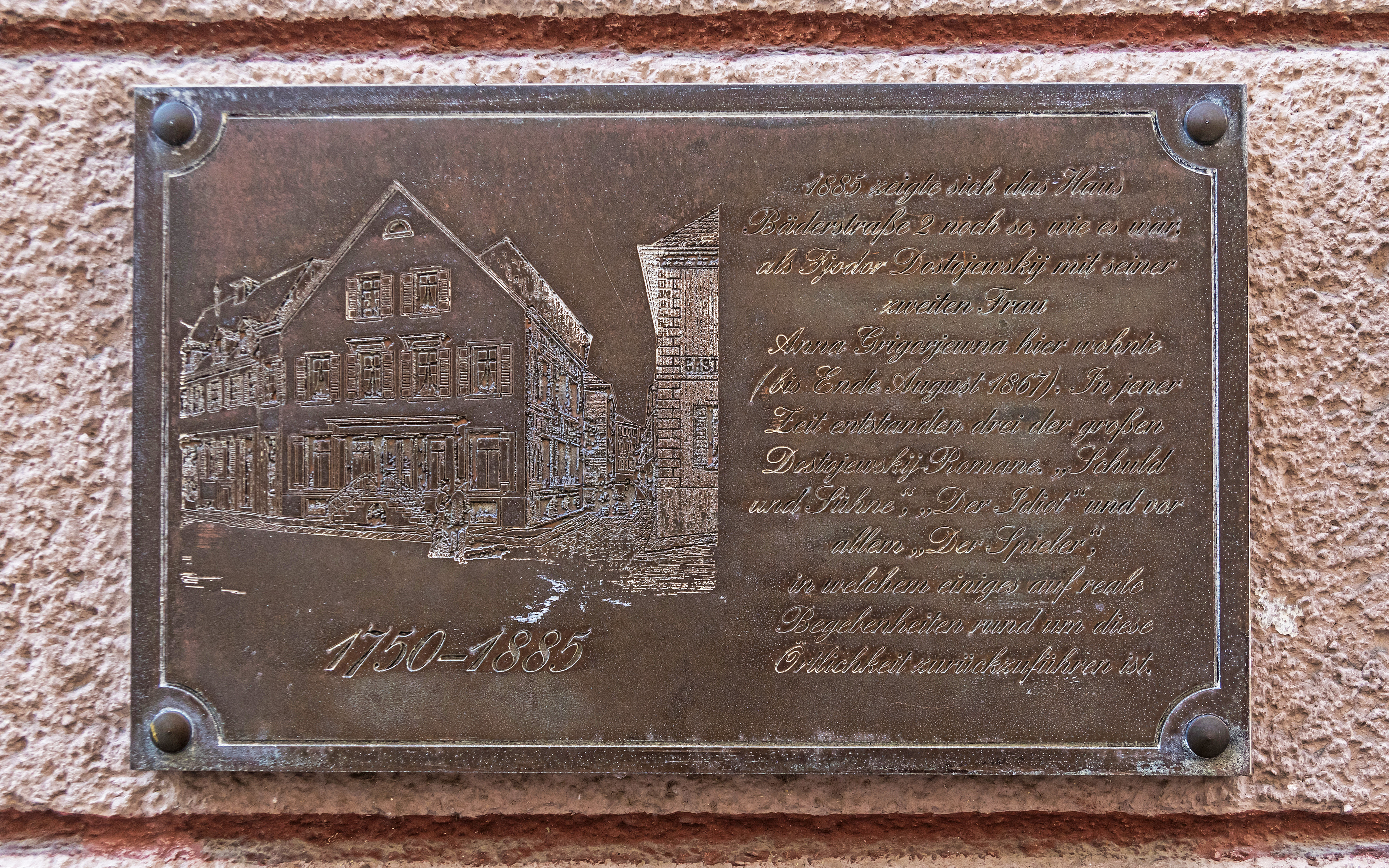 A memorial plaque related to F.M.Dostoevsky in Baden-Baden (BW, Germany).